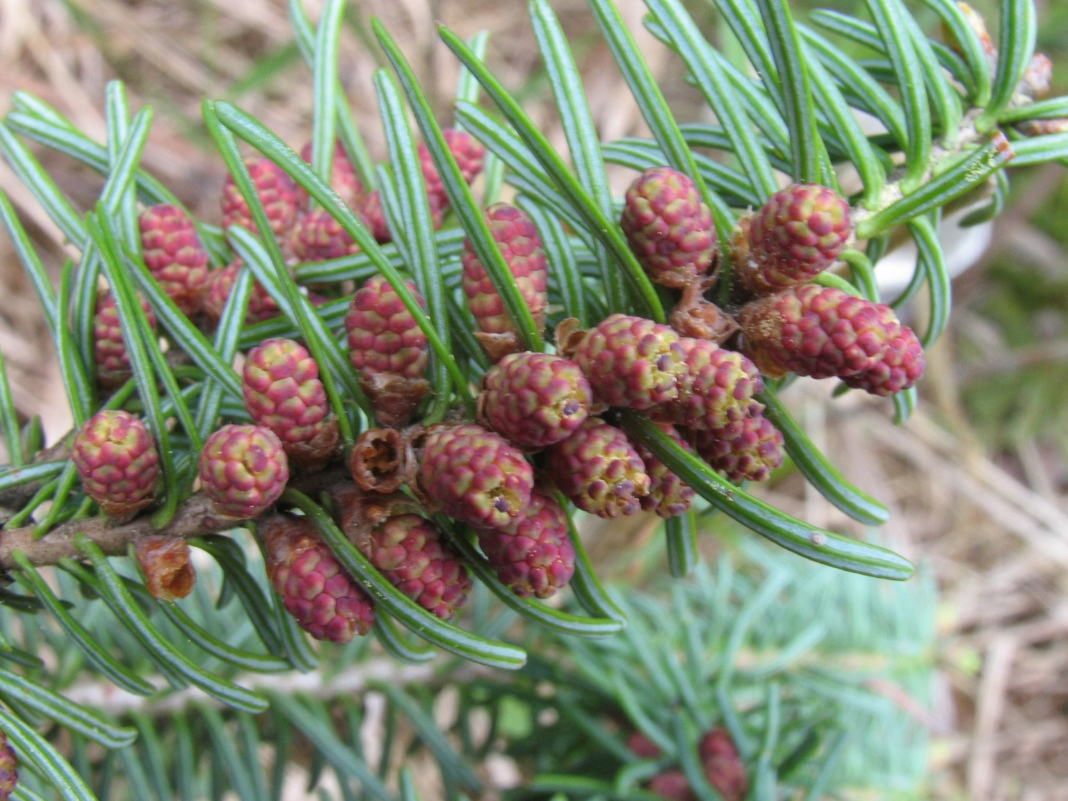 Abies balsamea pollen cones.